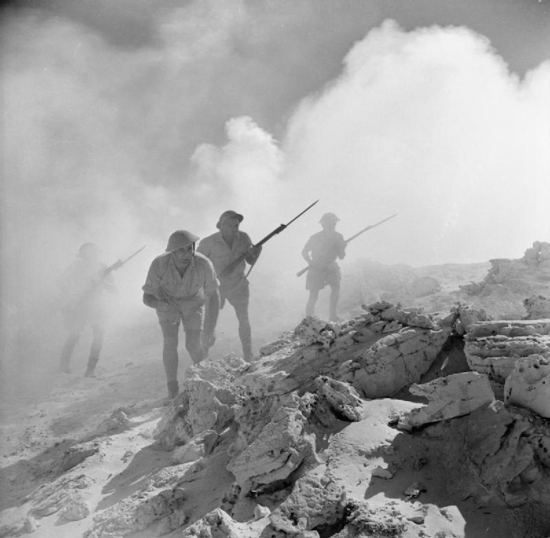 Campaign in North Africa 1940 - 1943 'Australians storm a strongpoint'. A posed portrait of Australian troops advancing during the Second Battle of El Alamein, 3 September 1942.